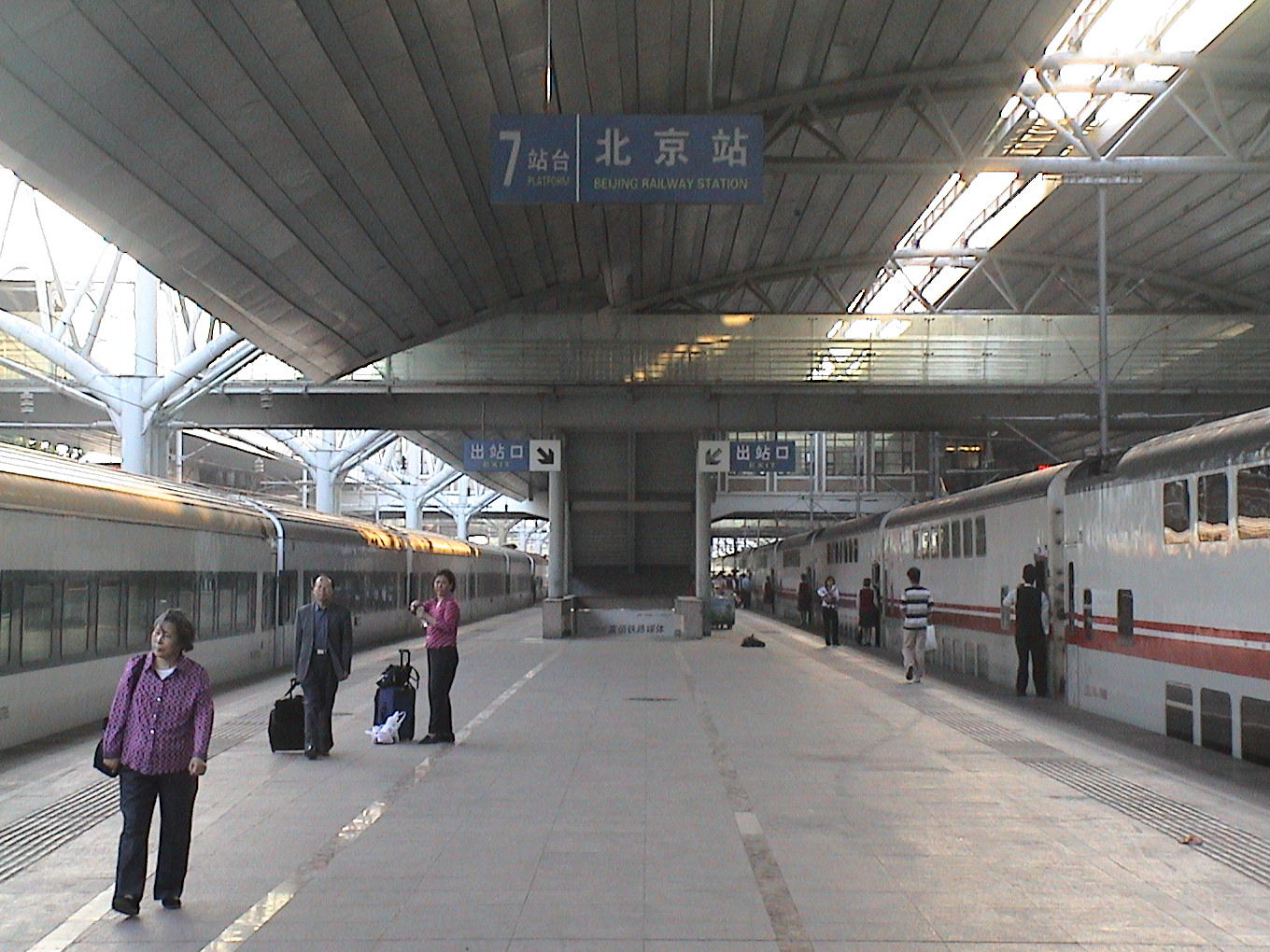 Beijing railway station